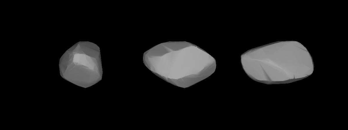 A three-dimensional model of 2384 Schulhof that was computed using light curve inversion techniques.